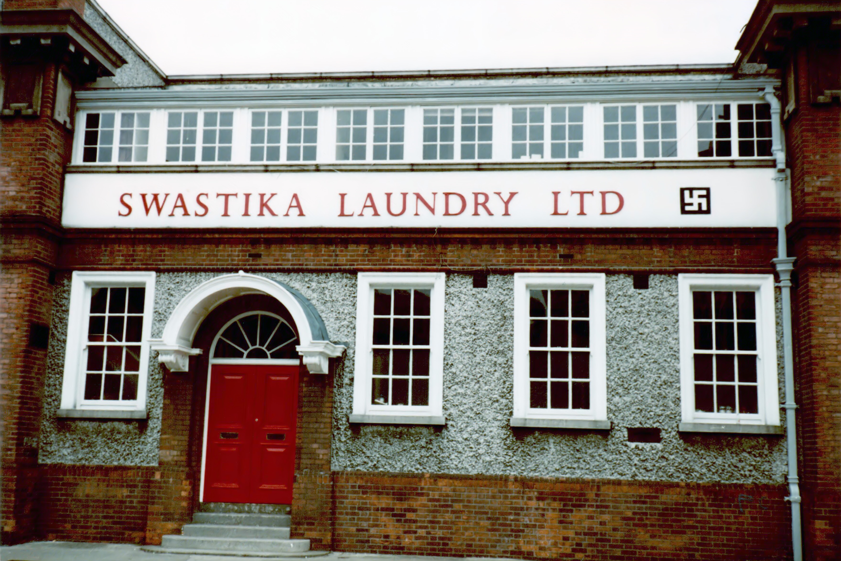 Swastika Laundry Ltd, Shelbourne Road, Ballsbridge, Dublin 4. Established 1912. Main entrance.